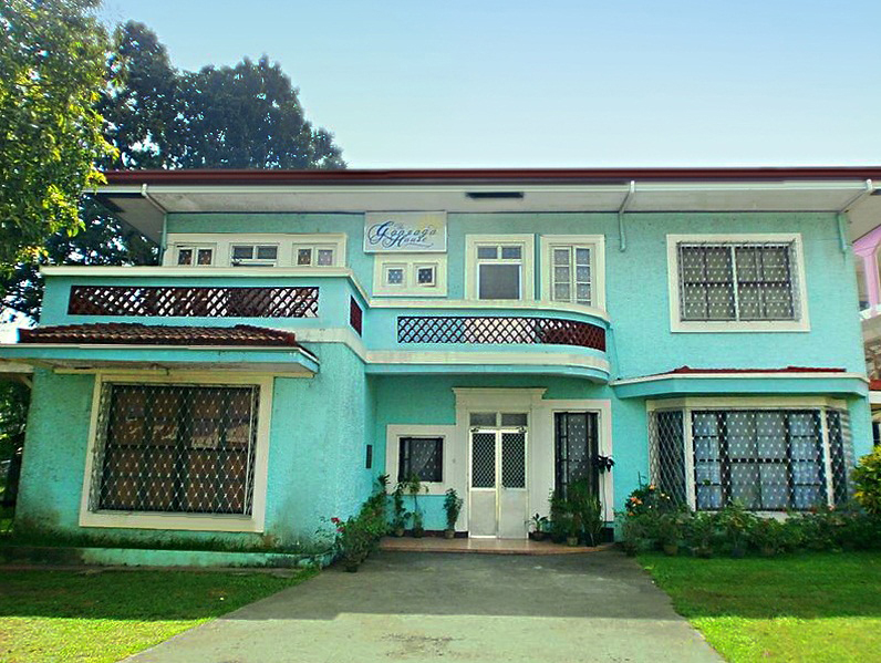 Gonzaga House (one of the student housing facilities) on the main campus of Central Philippine University